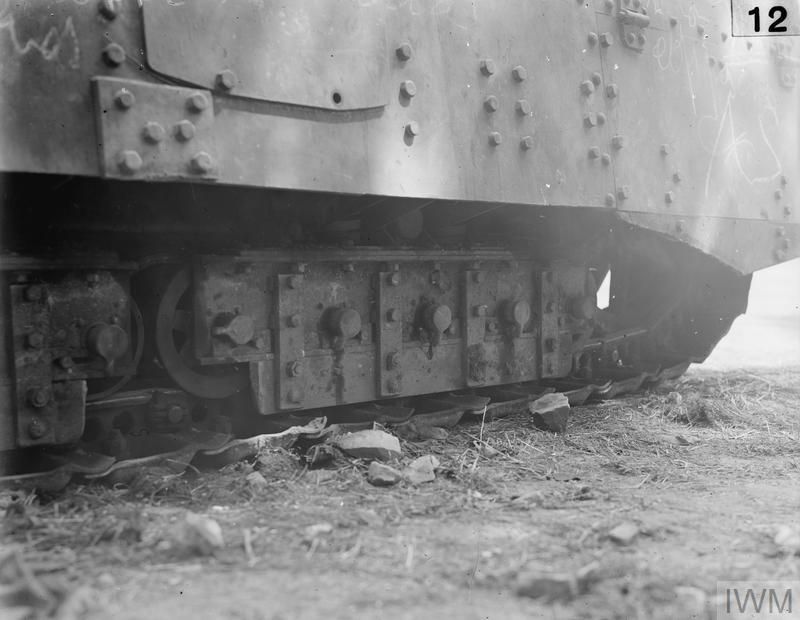 Captured A7V german tank tracks close-up.